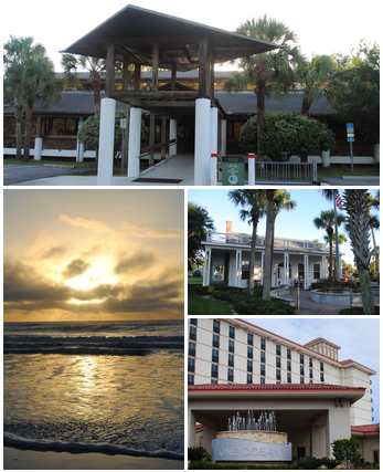 Photos I took around Atlantic Beach, Florida